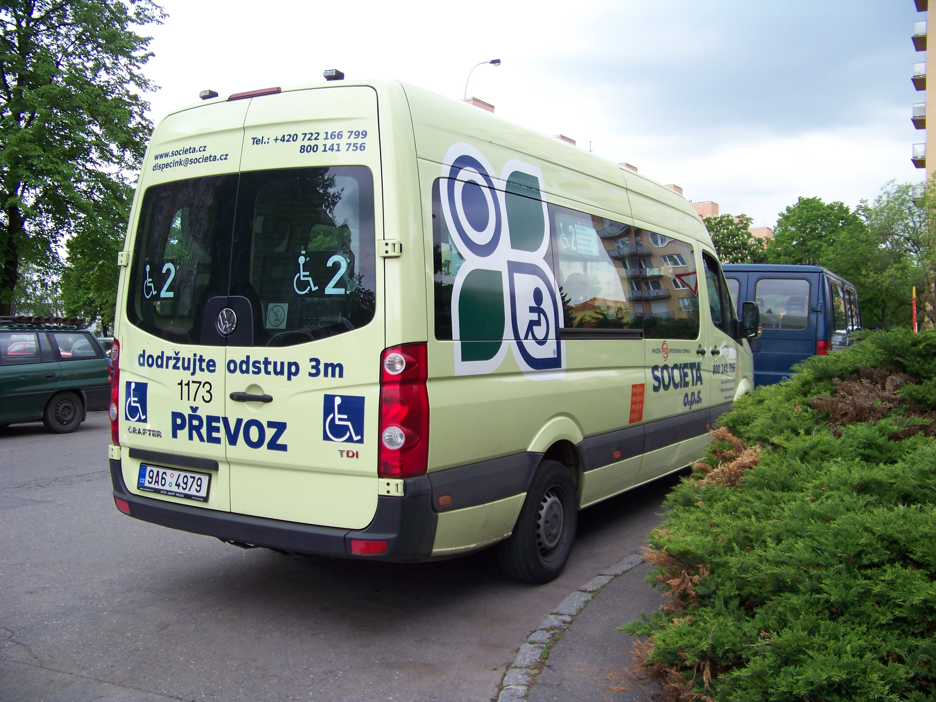 Záběhlice, Prague, the Czech Republic. Minibus of Societa, a special minibus line for disabled people.